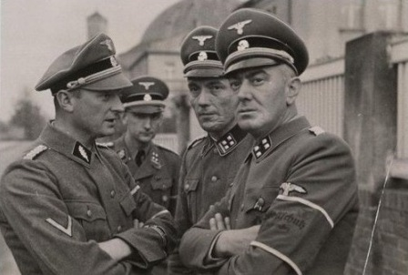 Commanders of so-called "Volksdeutscher Selbstschutz" - paramilitary formation composed of members of the German minority in pre-war Poland. Between September 1939 and April 1940 Selbstschutz - together with other Nazi-German formations - murdered tens of thousands of Poles in Pomerania. From the left: SS-Standartenführer Ludolf Jacob von Alvensleben – chief of the Selbstschutz’s inspectorate in Płutowo. SS-Obersturmbannführer Erich Spaarmann - chief of the Selbstschutz’s inspectorate in Bydgoszcz (to November 1939). SS-Obersturmbannführer Hans Kölzow – chief of the Selbstschutz’s inspectorate in Inowrocław. SS-Sturmbannführer Christian Schnug – chief of the Selbstschutz’s inspectorate in Bydgoszcz (since December 1939). This photo was taken in Bydgoszcz. During the second world war it was placed in so-called "Album of fame of Selbstschutz" (known also as "Alvensleben Album"). After the end of war this album was found and taken over by the Polish authorities. It is now in the archives of the Commission for the Investigation of Nazi Crimes in Poland.